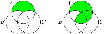 Venn diagram of relative complements (A\B)\C and A\(B\C).